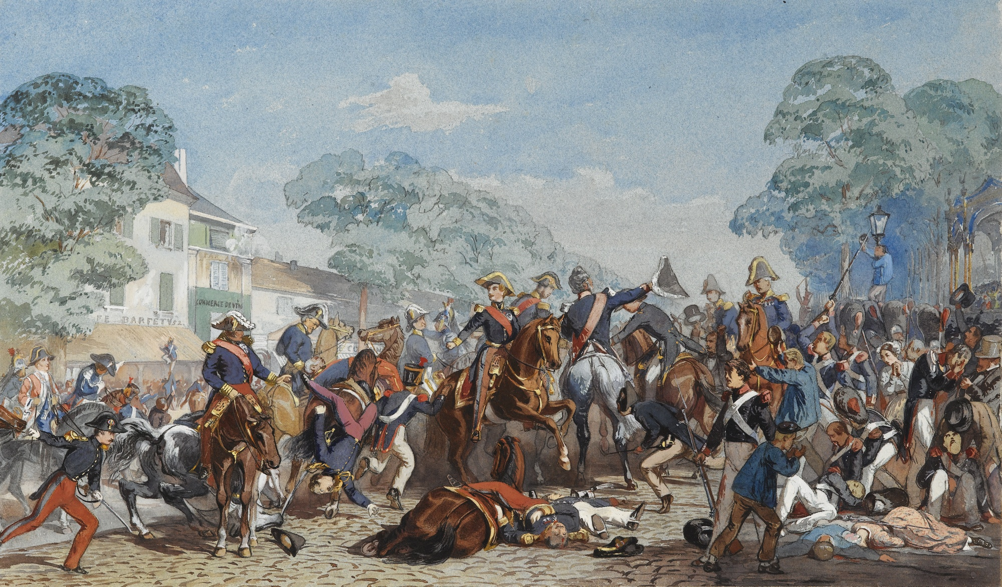 Watercolor by François d'Orléans, prince de Joinville (1818-1900) - Attentat de Fieschi, 1835